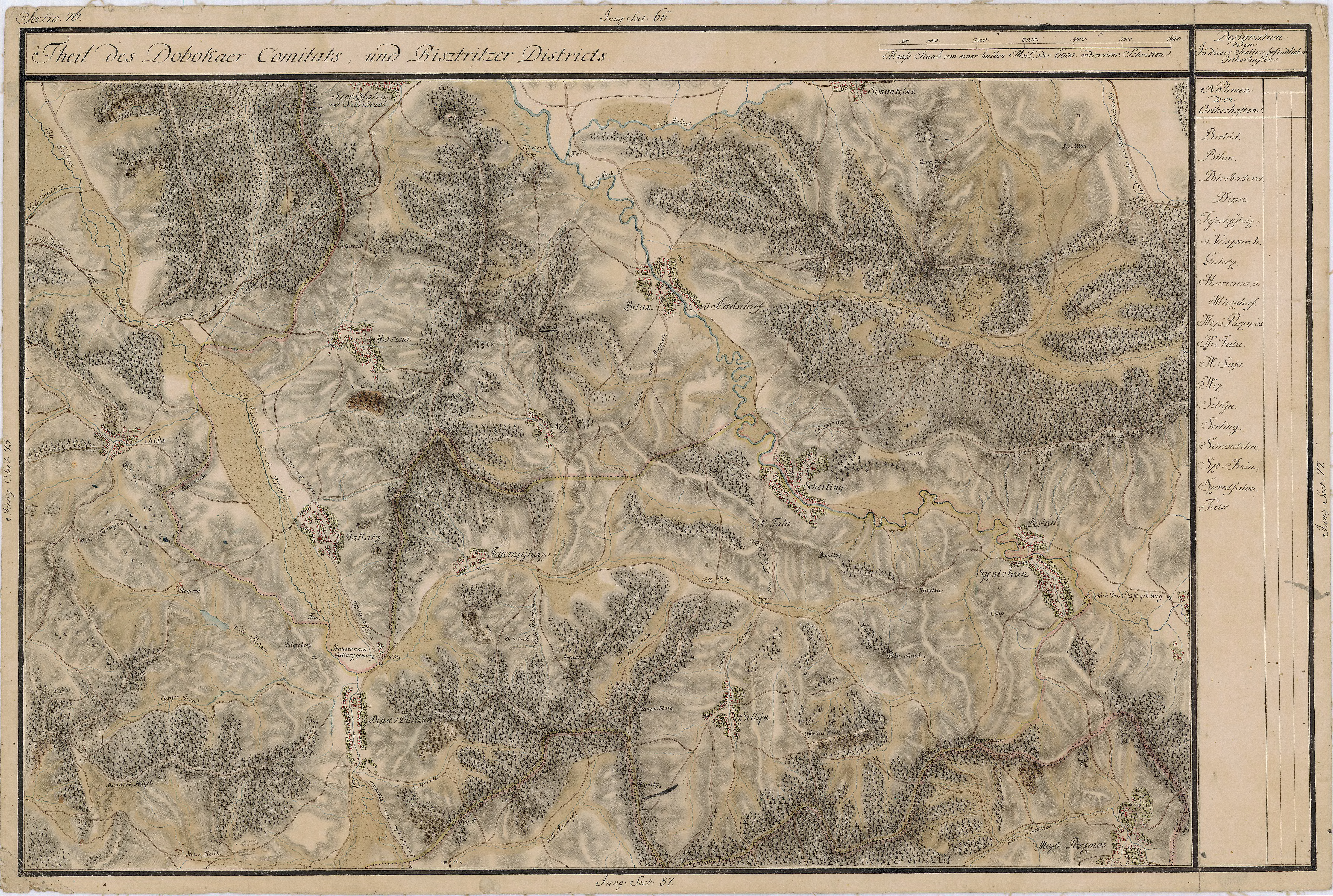 Grand Duchy of Transylvania, 1769-1773. Josephinische Landaufnahme pg.076